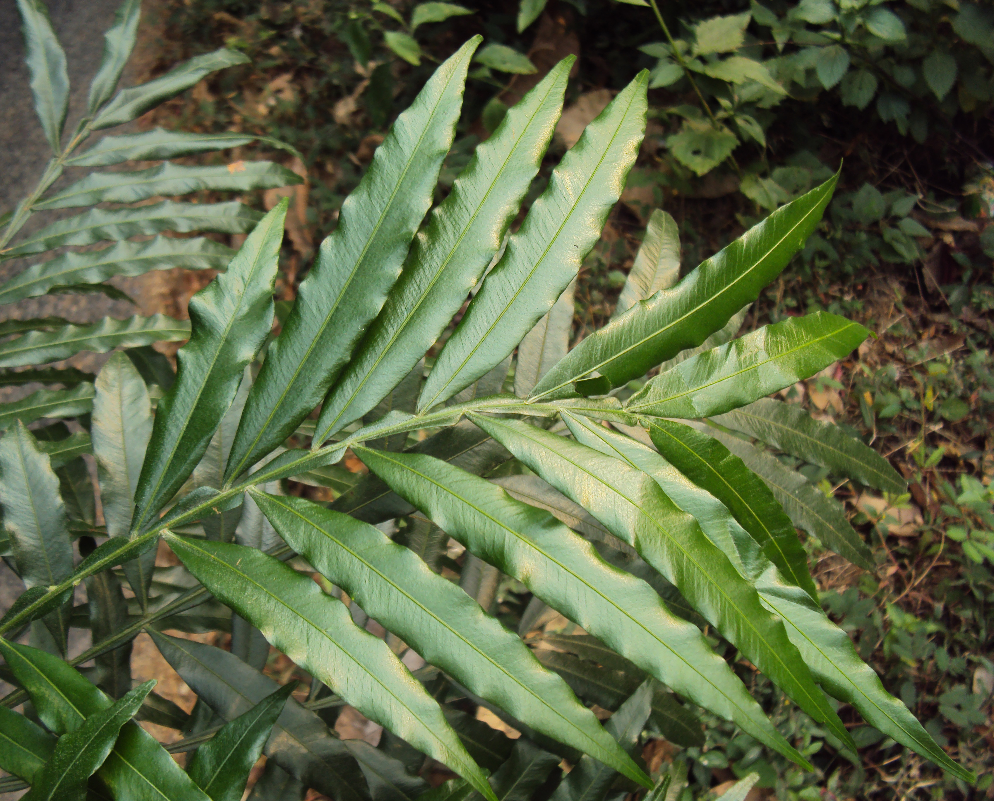 Filicium decipiens